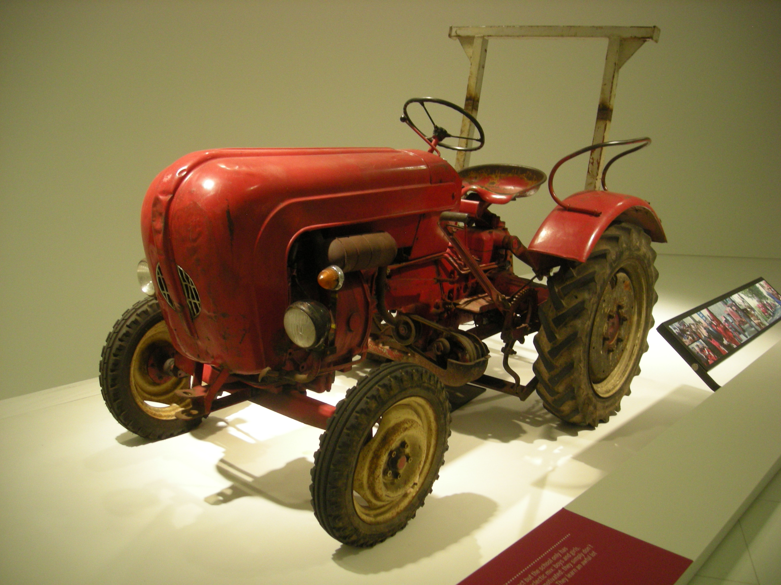 A Porsche-Diesel-Schlepper Junior tractor inside the Porsche Museum in Stuttgart, Baden-Württemberg (Germany).